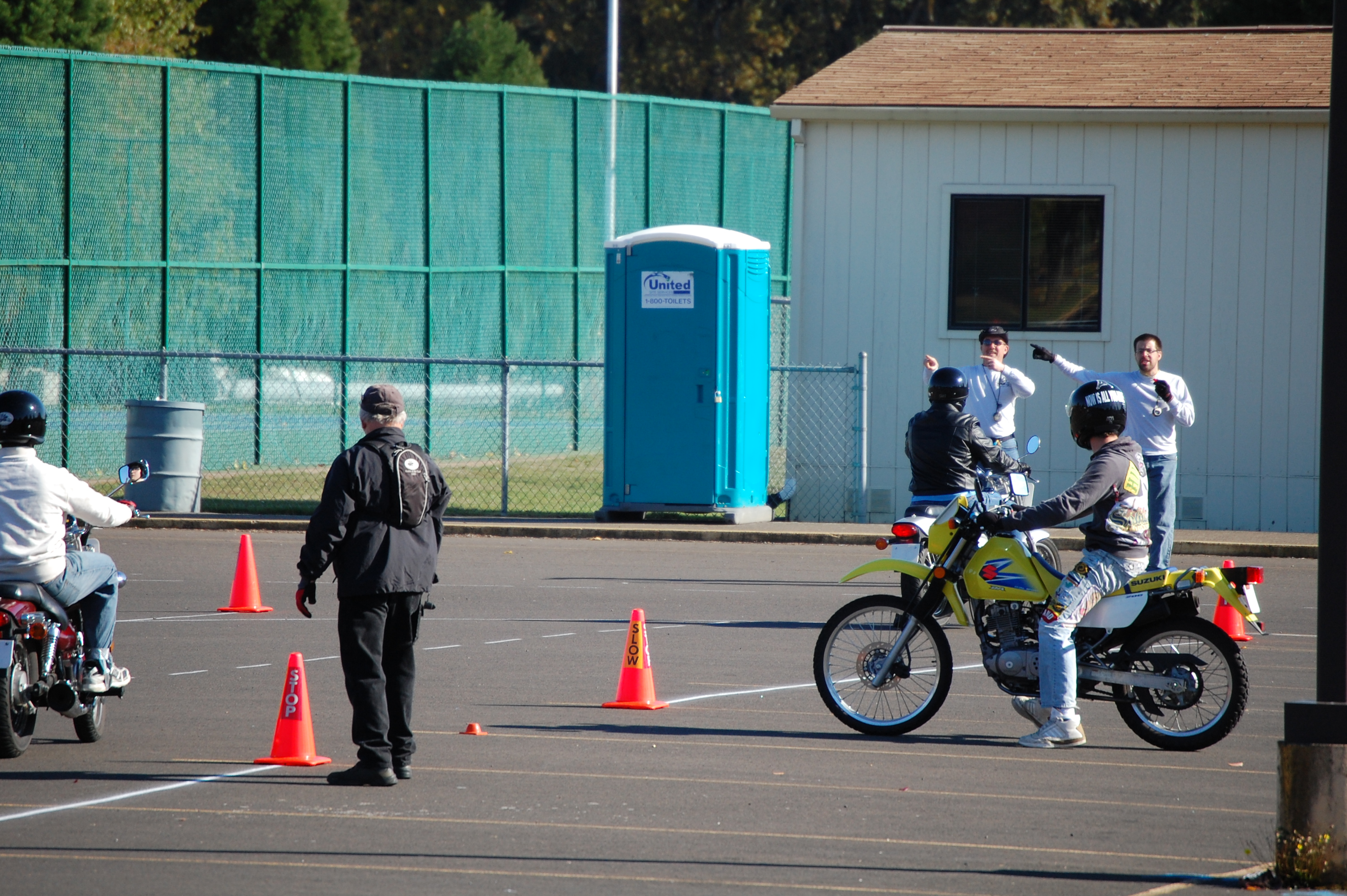 Team Oregon motorcycle training in McMinnville, Oregon. Work by author on public property.